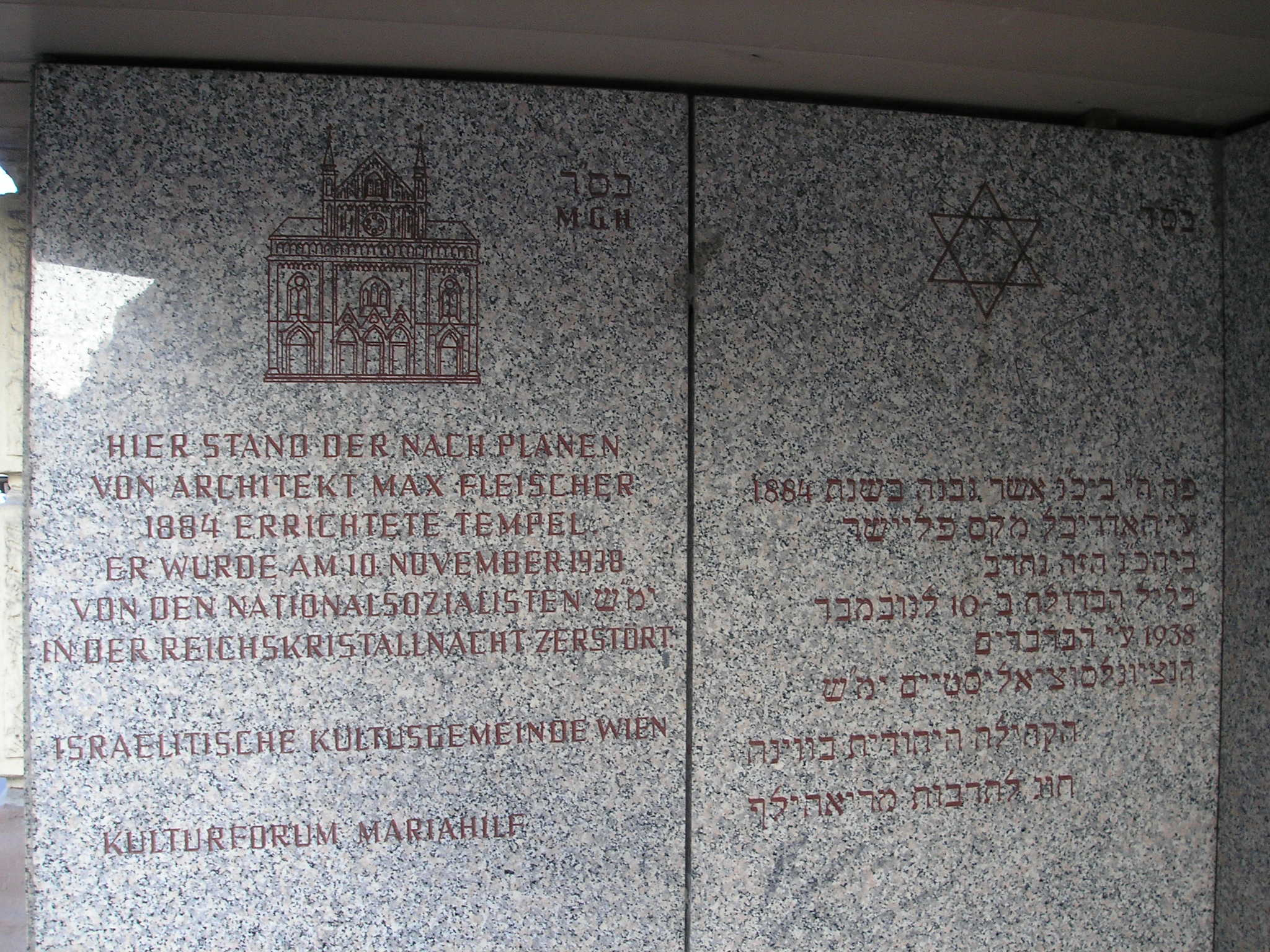 View of the memorial plaque of the Schmalzhoftempel synagogue in Vienna's VI district Mariahilf, on Schmalzhofgasse. The synagogue was destroyed by the Nazis during the Reichskristallnacht in 1938, a modern building was constructed in its site after the war.